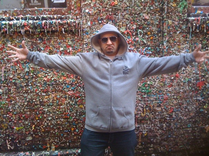 DJ Salam Wreck in Seattle, Wa - Gum Wall